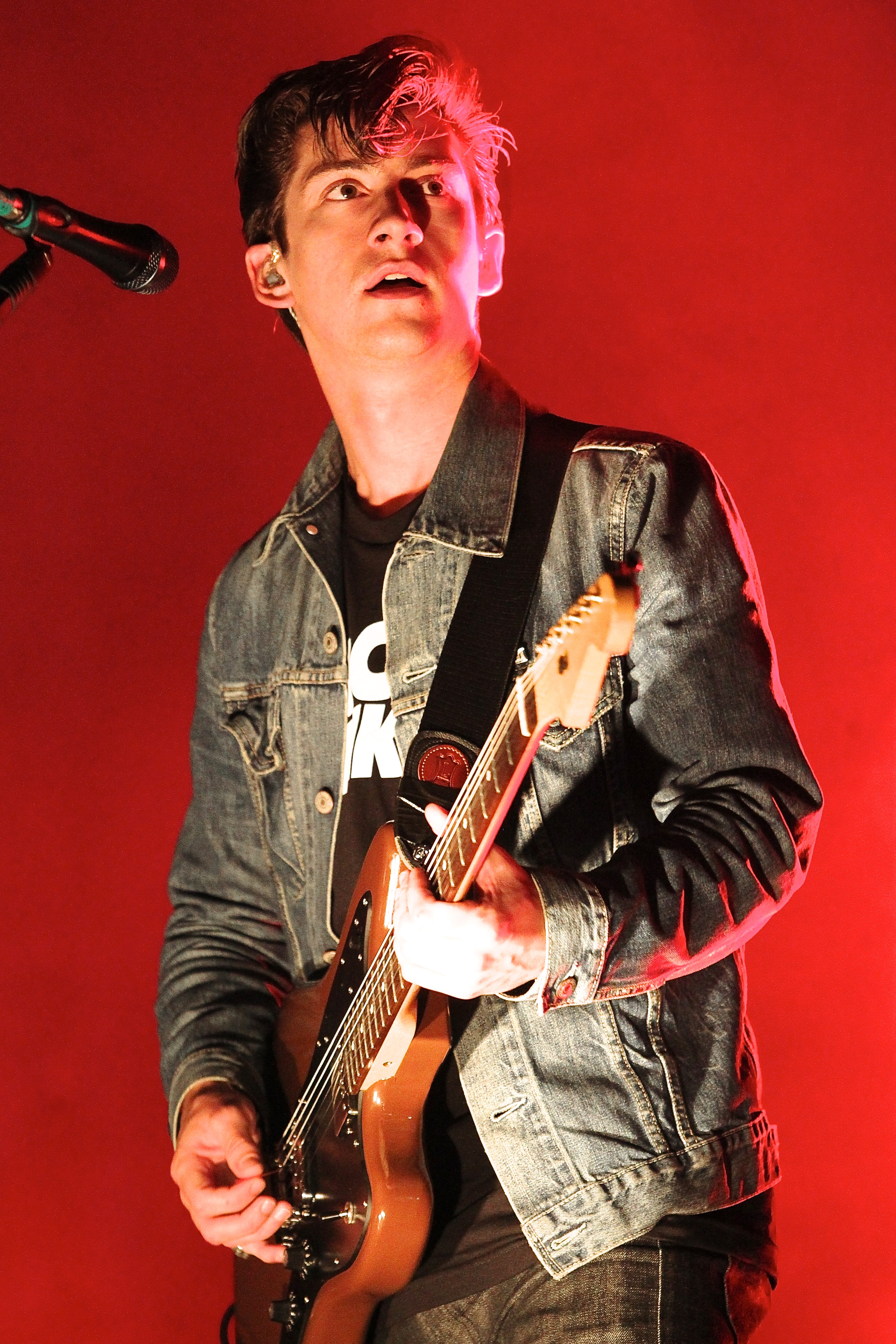 Alex Turner with the Arctic Monkeys in Bolognia, Italy (September 3, 2011)